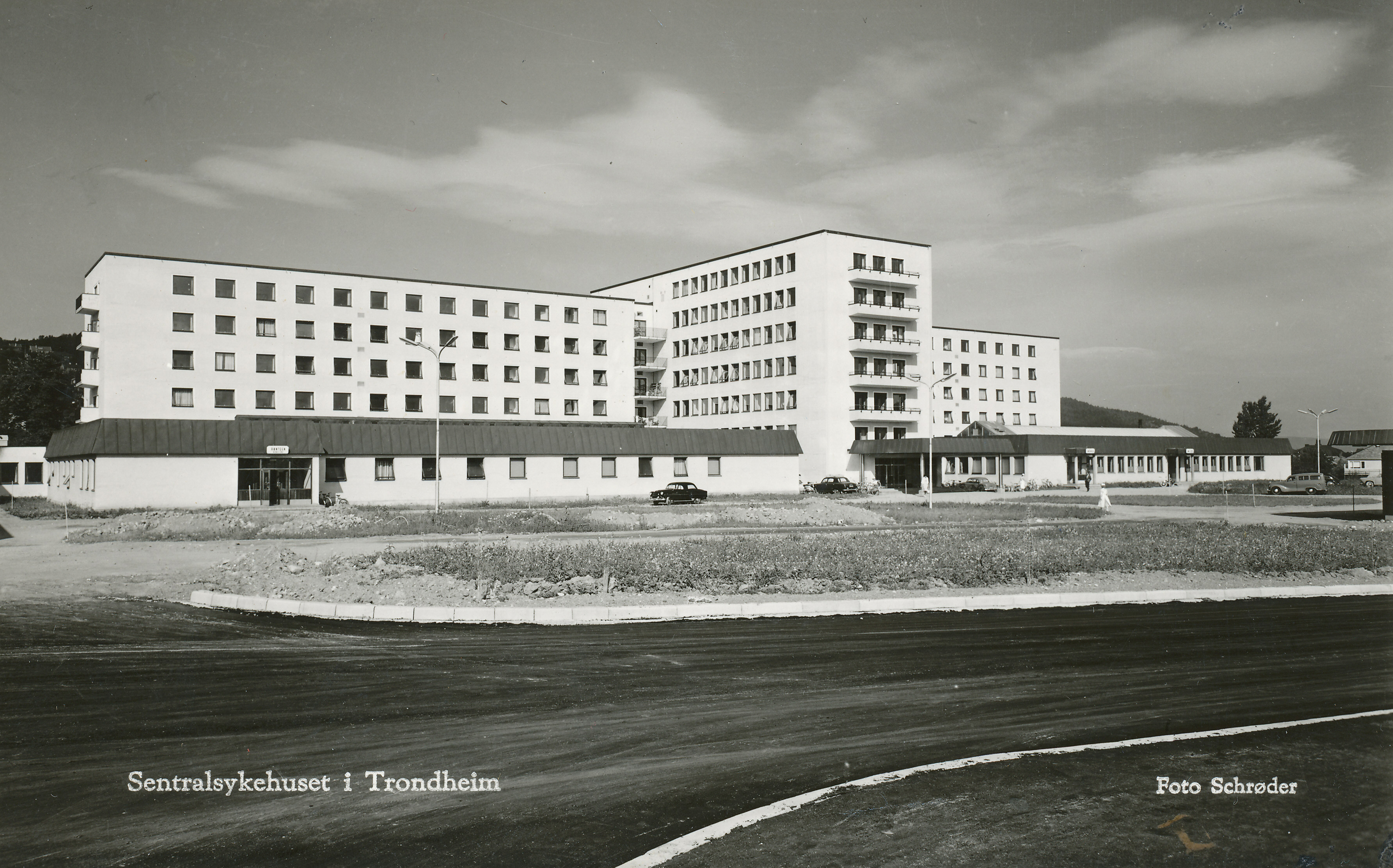 Format: Fotopositiv (Postkort) Dato / Date: ca. 1959 Fotograf / Photographer: Schrøder Sted / Place: Olav Kyrres gate 17, Trondheim Eier / Owner Institution: Trondheim byarkiv, The Municipal Archives of Trondheim Arkivreferanse / Archive reference: Tor.H40.B17.F1243 [T1290]